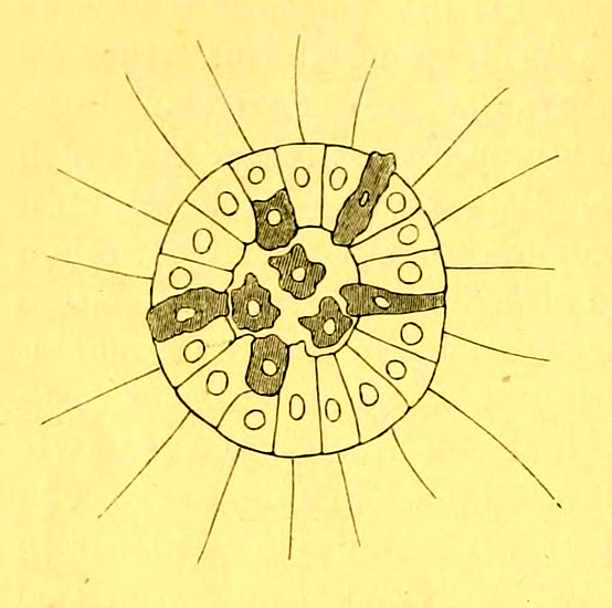 illustrated in Iliá Méchnikov (1886) Embryologische Studien an Medusen. Ein Beitrag zur Genealogie der Primitiv-organe